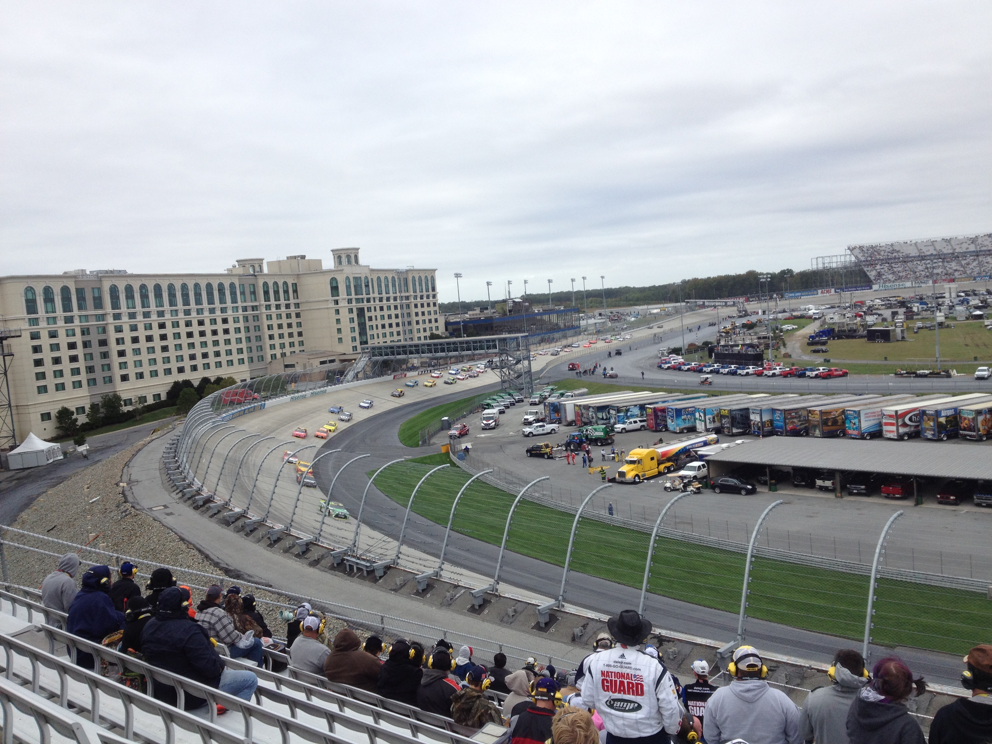 The 2015 AAA 400 at Dover International Speedway viewed from between turns 3 and 4, with Kyle Busch (#18) leading the field following a restart.